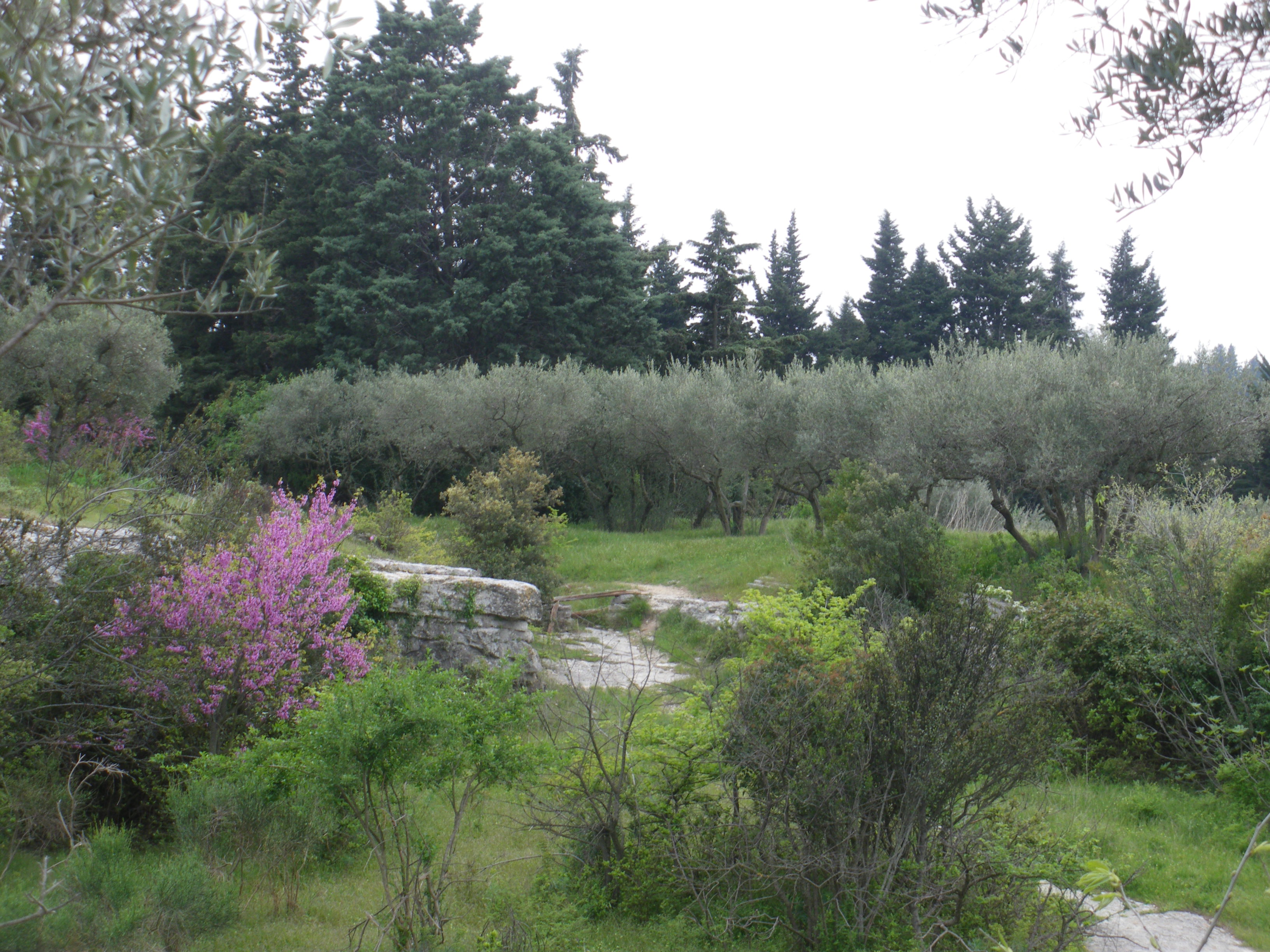 Oliver tree field, near Tarascon, France